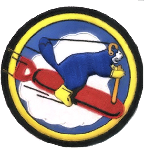 Emblem of the 588th Bombardment Squadron (World War II)